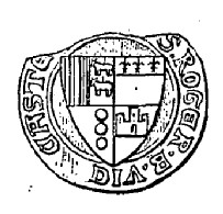 Roger-Bernard III of Foix, vicomte de Castelbon († 1350)